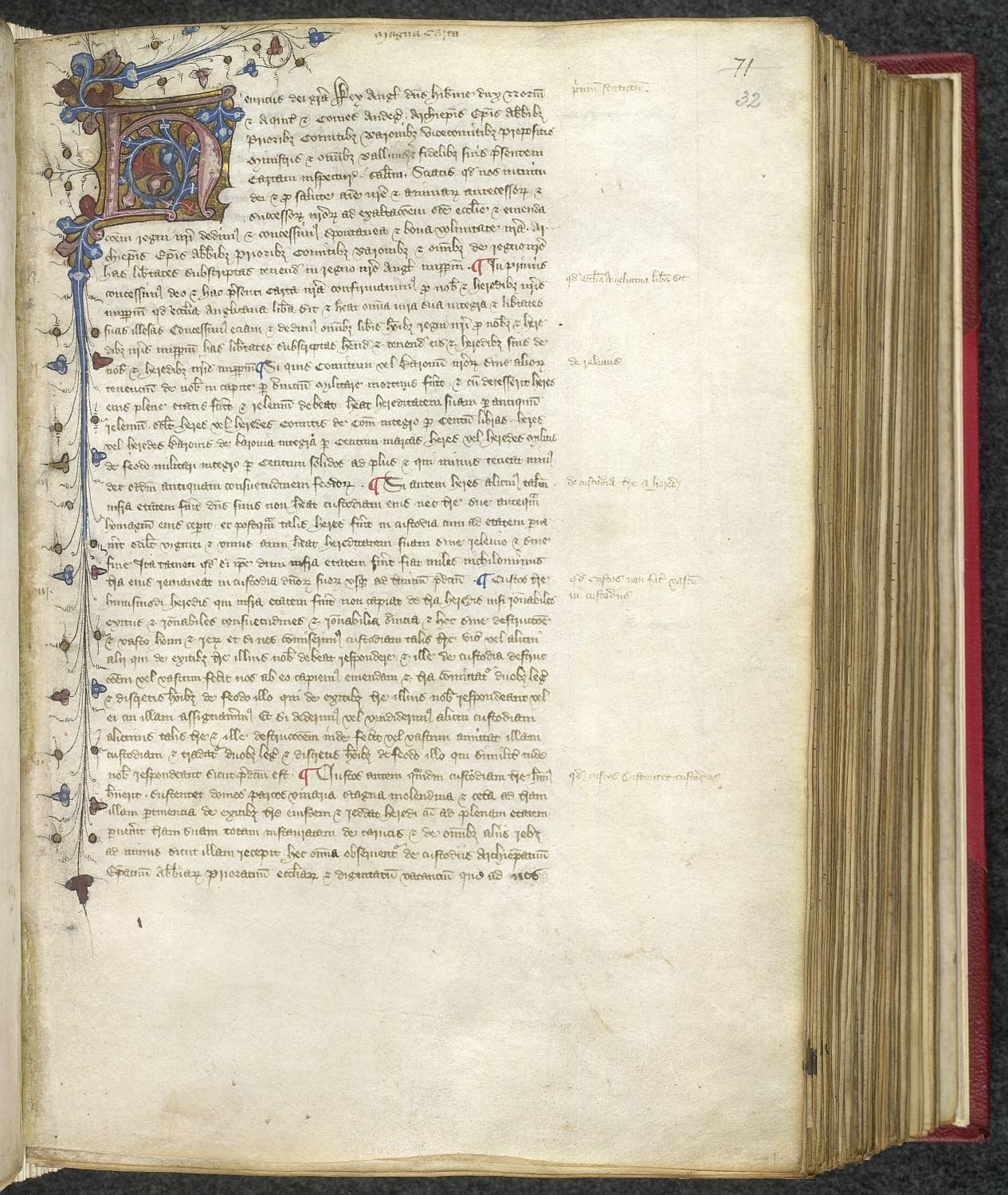 Illluminated initial 'H'(enricus) at the beginning of the Magna Carta confirmed by Henry III